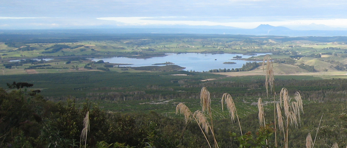 Looking south over Lake Rerewhakaaitu from the slopes of Mount Tarawera, New Zealand. Tauhara is visible far right, along with Tongariro, Ngaruahoe and (faintly) Ruapehu.